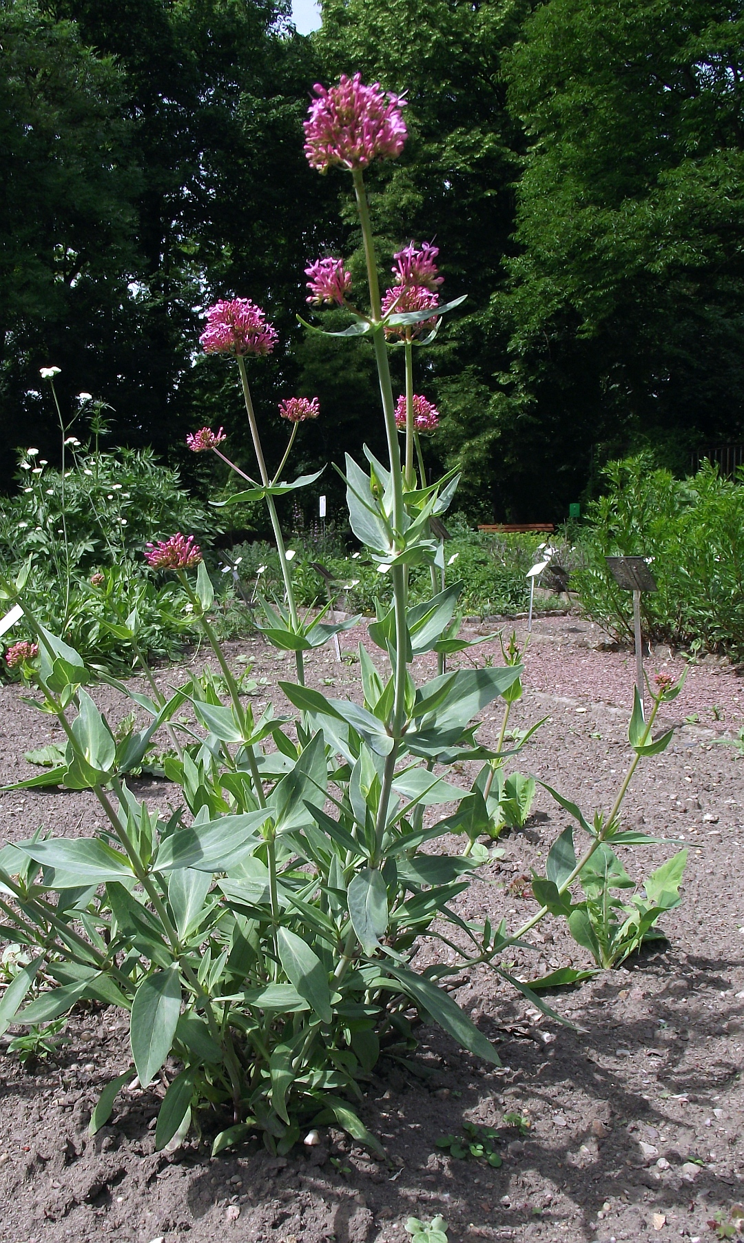 Centranthus ruber, also called Valerian or Red valerian is a popular garden plant grown for its ornamental flowers. Other common names include Jupiter's Beard and Spur Valerian. Flowers.